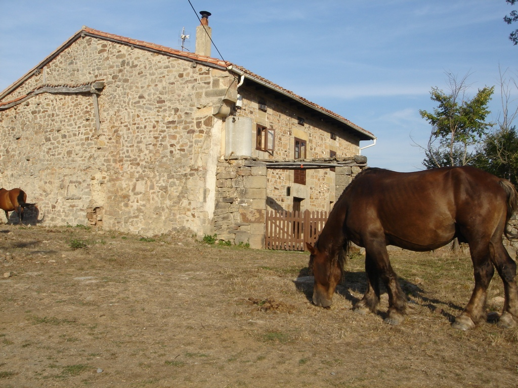 Otero 2. Draft horse, probably Hispano-Breton breed (chestnut coat color & area of breeding are good)